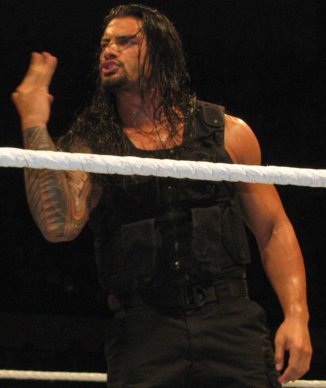 Roman Reigns @ Adelaide, South Australia WWE house show on the 29th of July '13